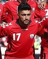 Mustafa Zazai before match with Japan, 2018 FIFA World Cup qualification, Azadi Stadium, Tehran